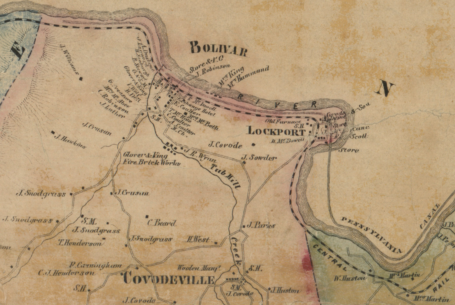 Map of Bolivar and Lockport, Pennsylvania, taken from 1857 William J. Barker map of Westmoreland County available at the Library of Congress website